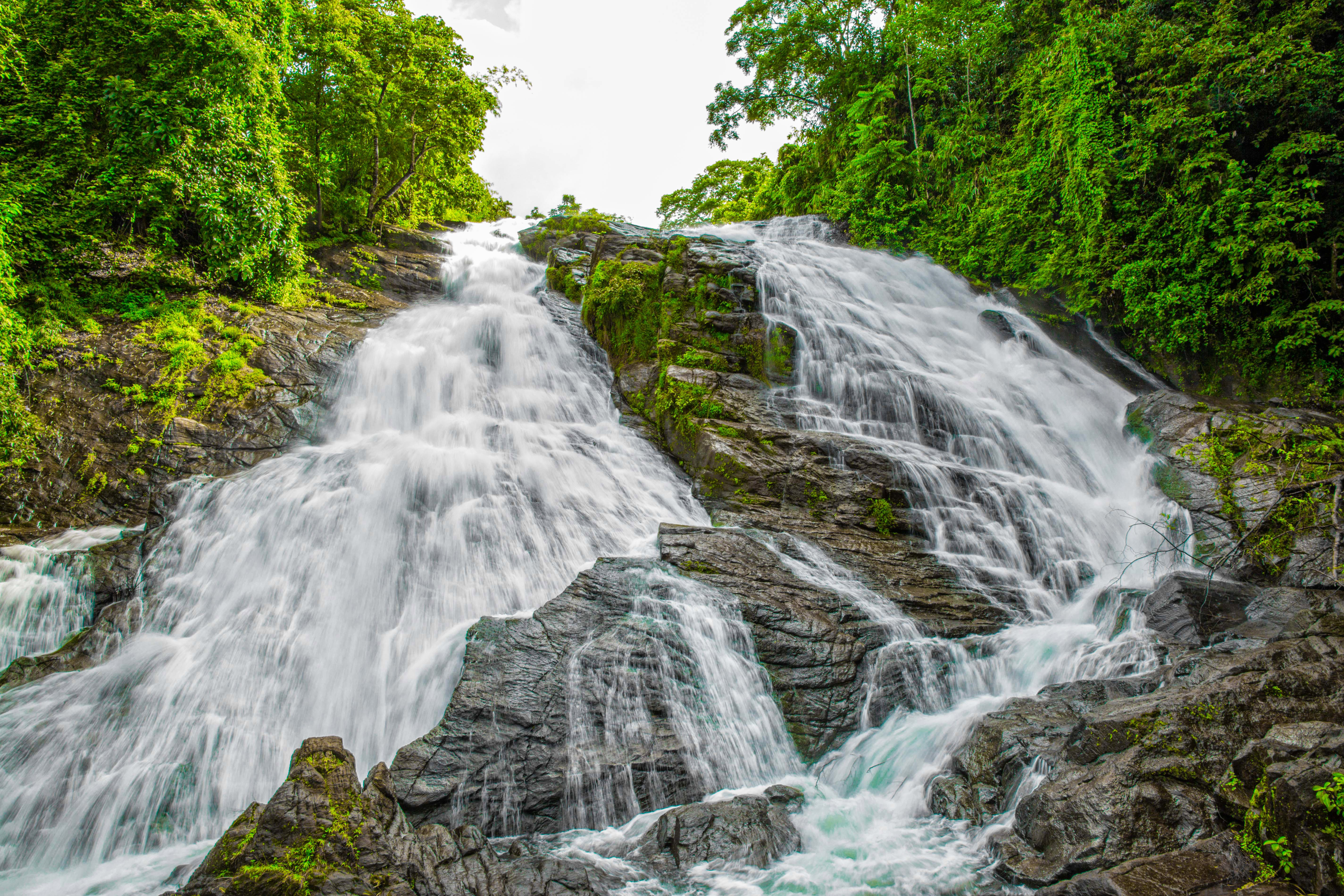 Charpa Falls sits in the dense outline of the vazhachal forests and its water flows into the athirapally falls eventually. Its is always a calmer and misty falls especially beautiful during the rainy days but dries up during the rainless summer days.